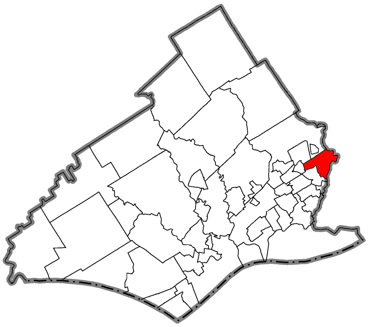 Showing the location within Delaware County, Pennsylvania.